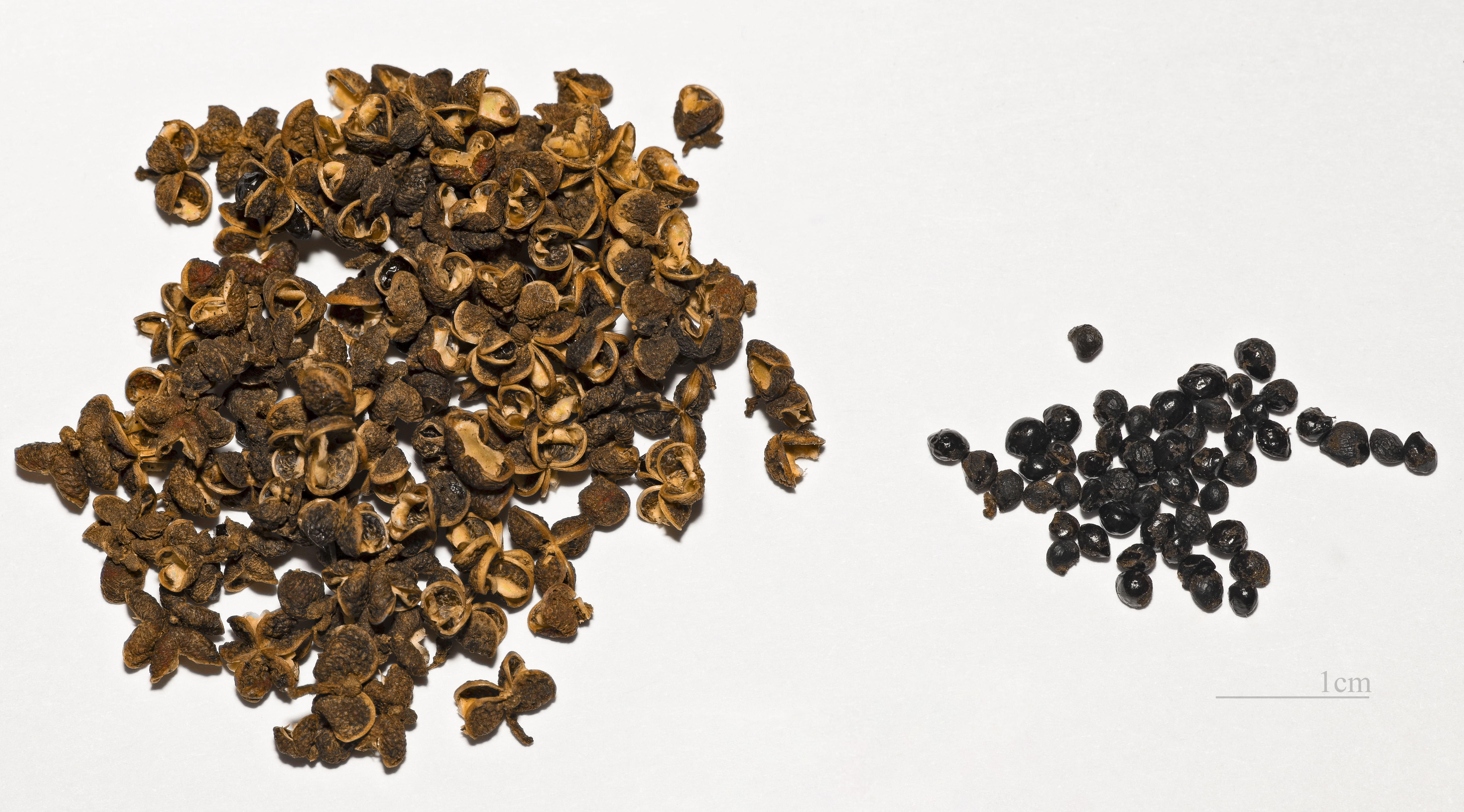 Indian pepper, Dried fruits, and seeds